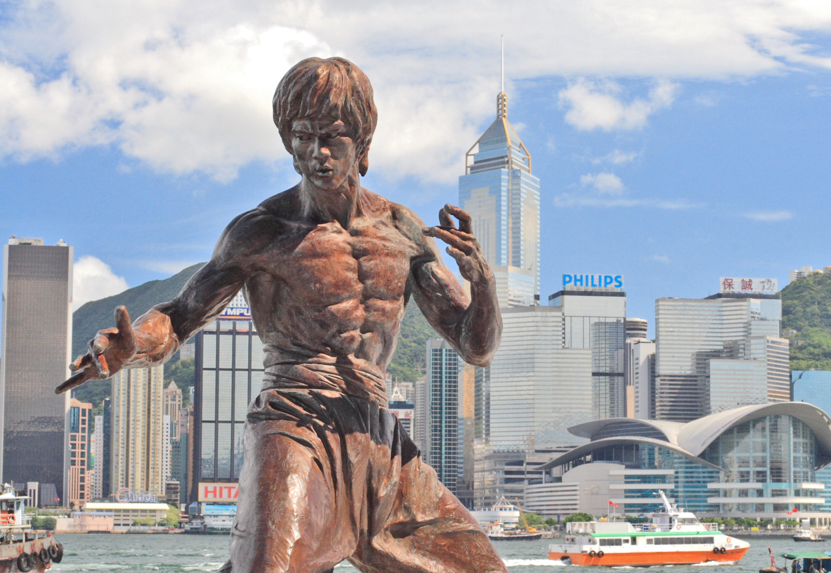 Statue by Cao Chong-en of the movie star and Chinese martial artist Bruce Lee on the Avenue of Stars of Hong Kong